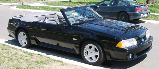 1993 Ford Mustang GT Convertible. Vehicle owned by Andrew Booth of Lenexa, KS